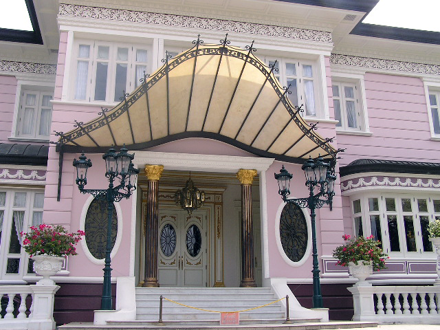 Uthayan Phumisathian Residential Hall within Bang Pa-In Palace, Ayutthaya, Thailand พระที่นั่งอุทยานภูมิเสถียรภายในพระราชวังบางปะอิน จังหวัดพระนครศรีอยุธยา ประเทศไทย